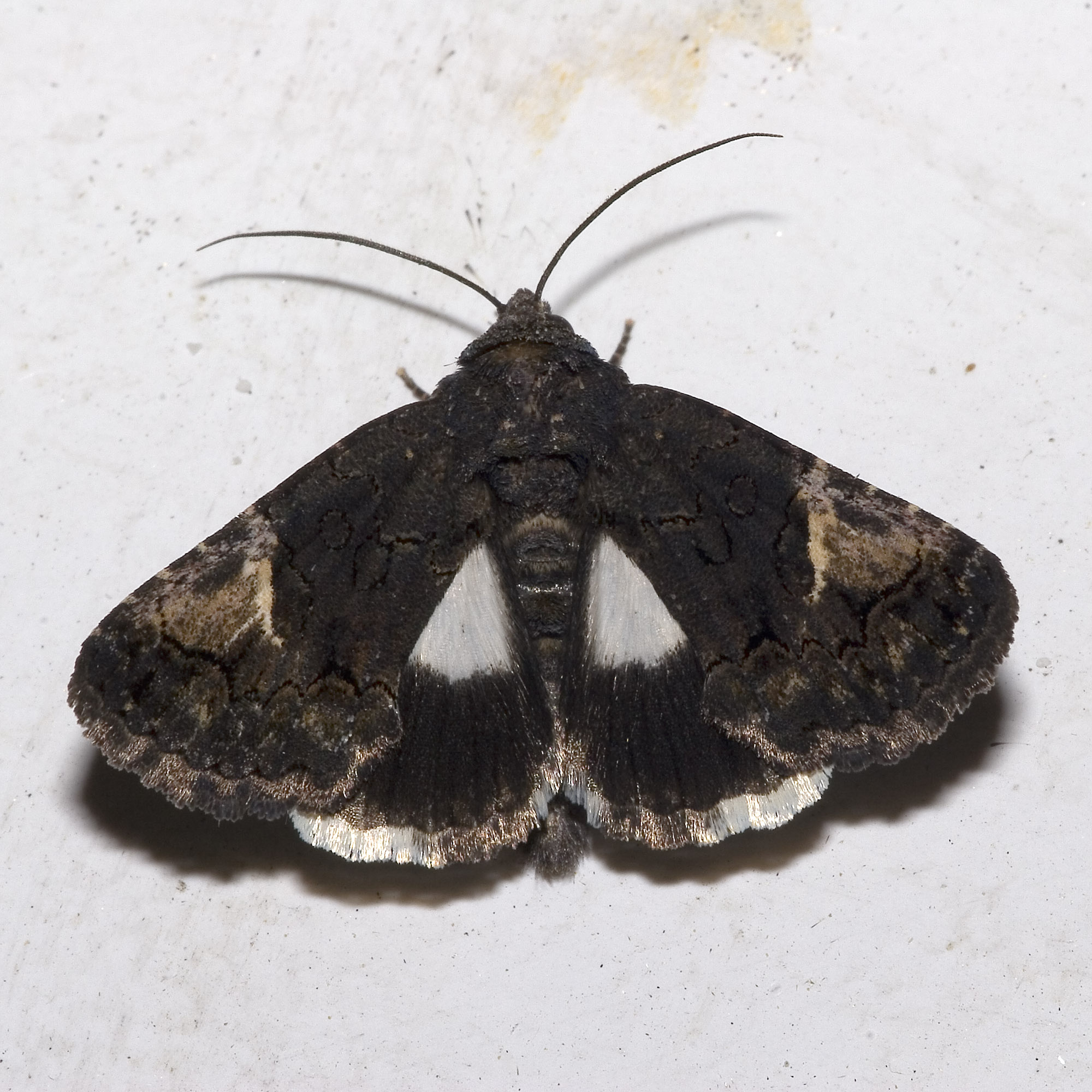 Please report references to .